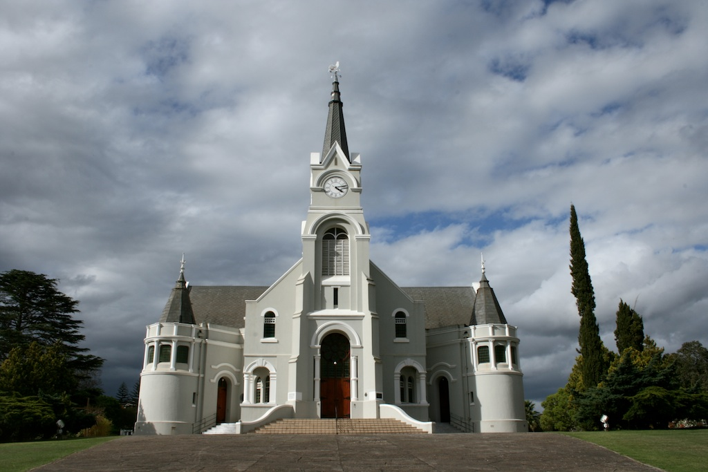 Dutch Reformed Church in the centre of Heidelberg, Western Cape.